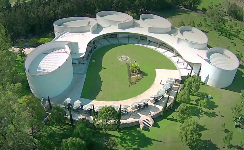 Vista aérea de las Aulas Amplias.